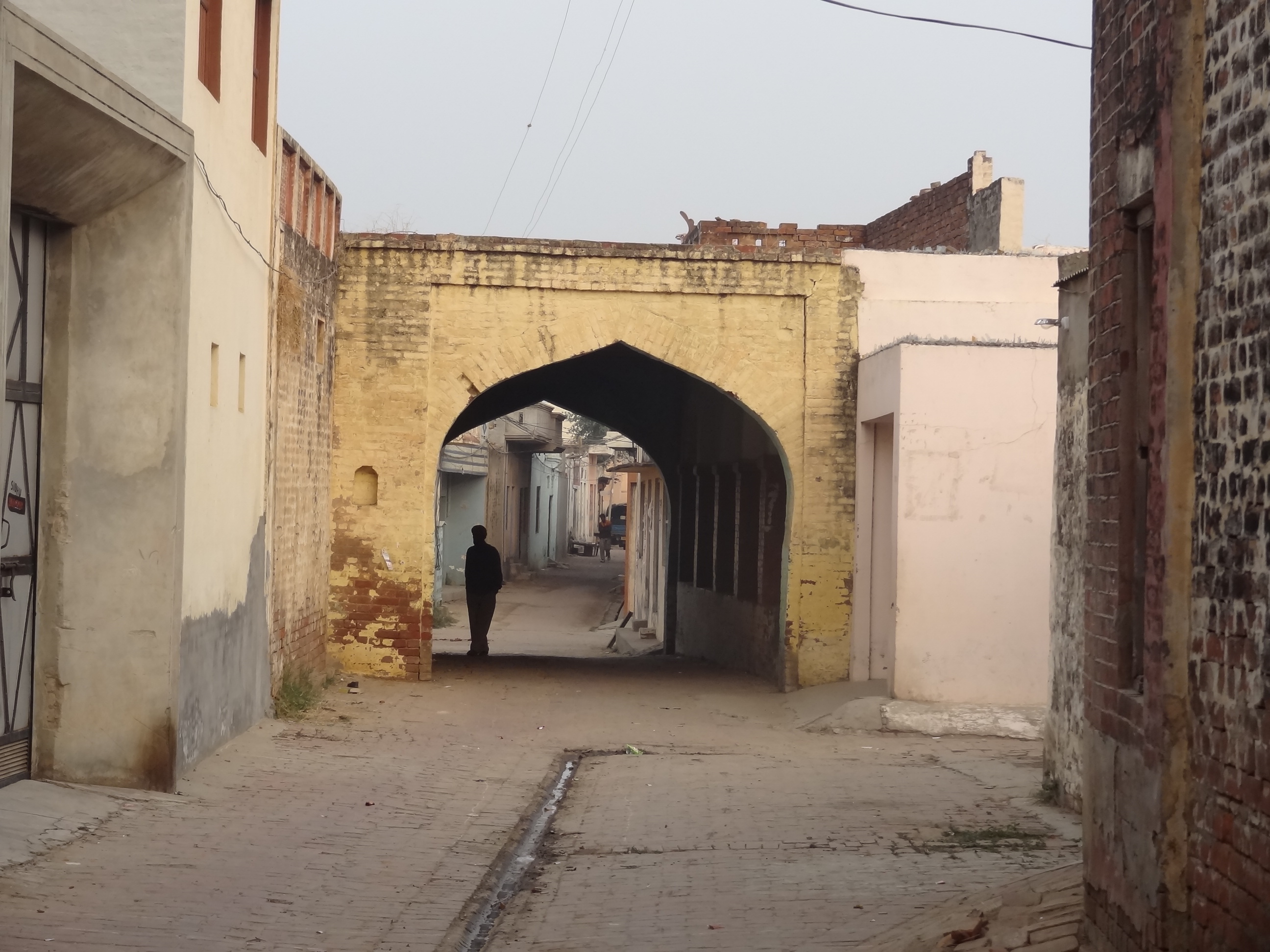 A view of a Sidhwan alley. This picture was taken in November 2012.